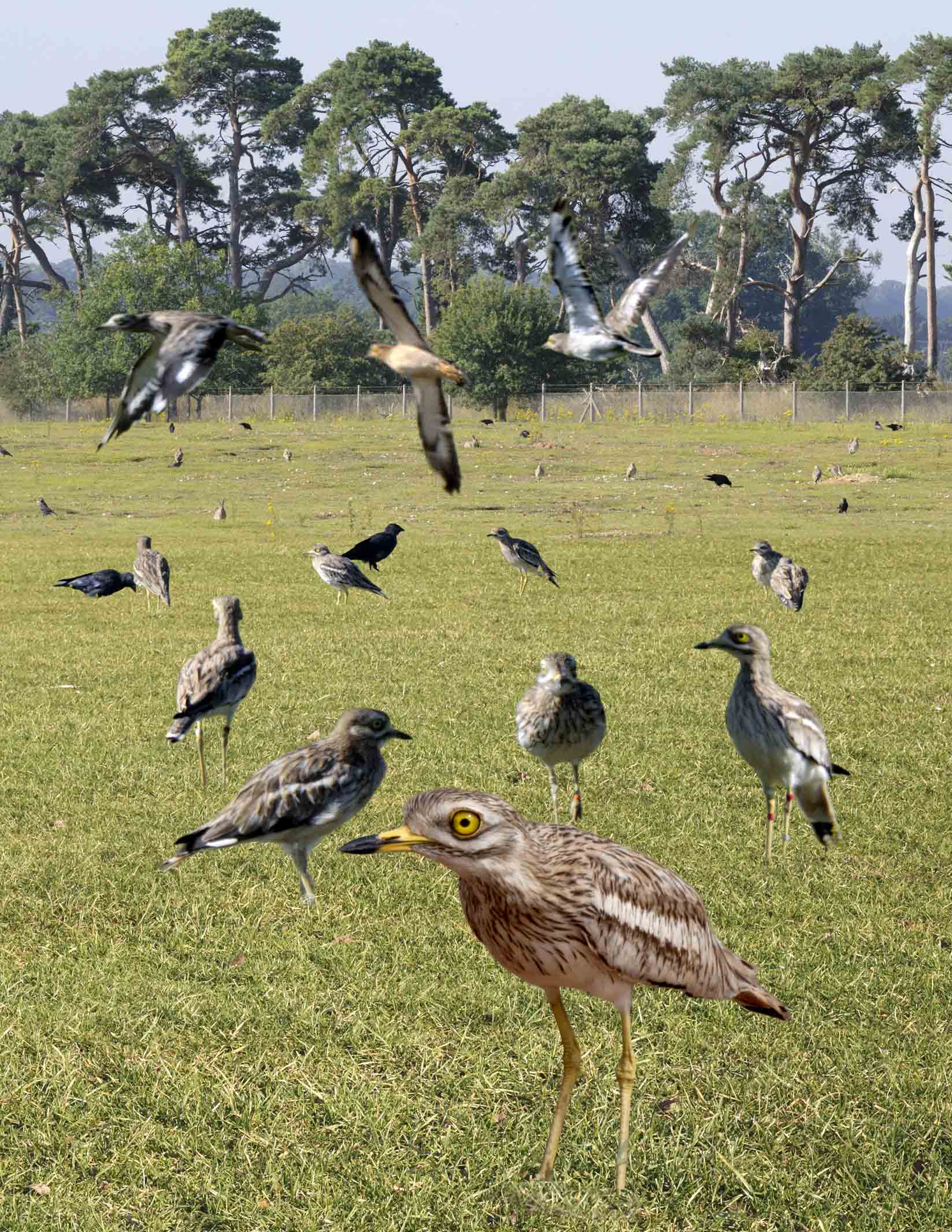 Stone Curlew from the Crossley ID Guide Britain and Ireland